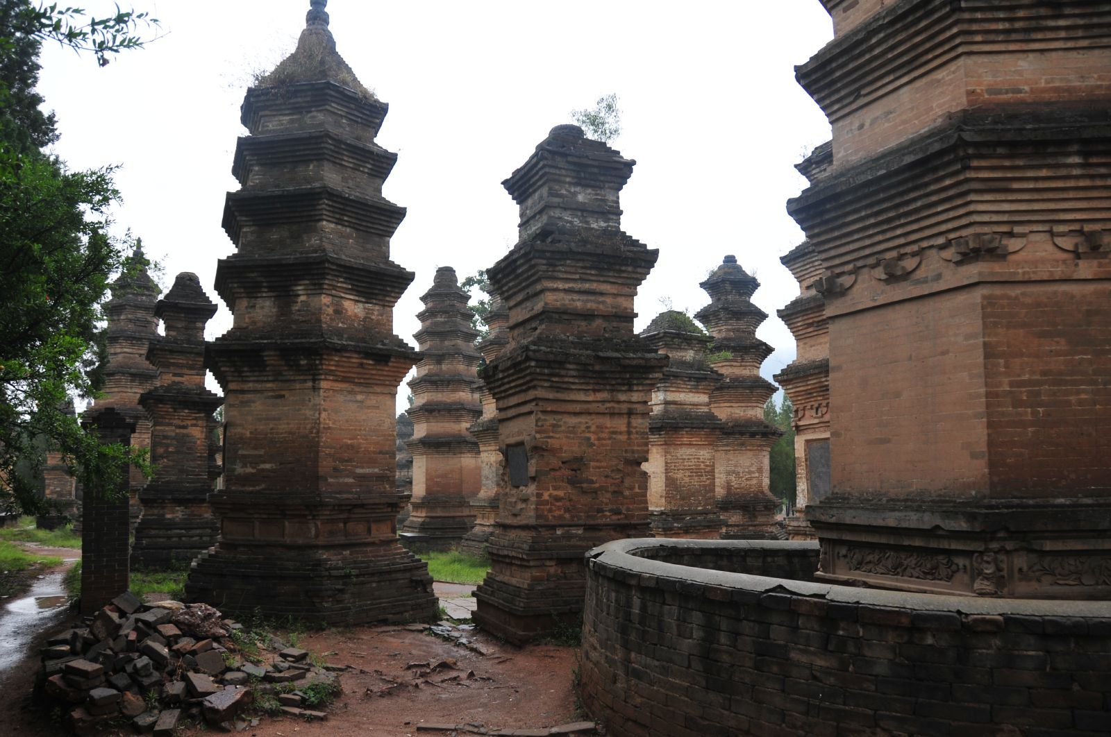 Shaolin Monastery